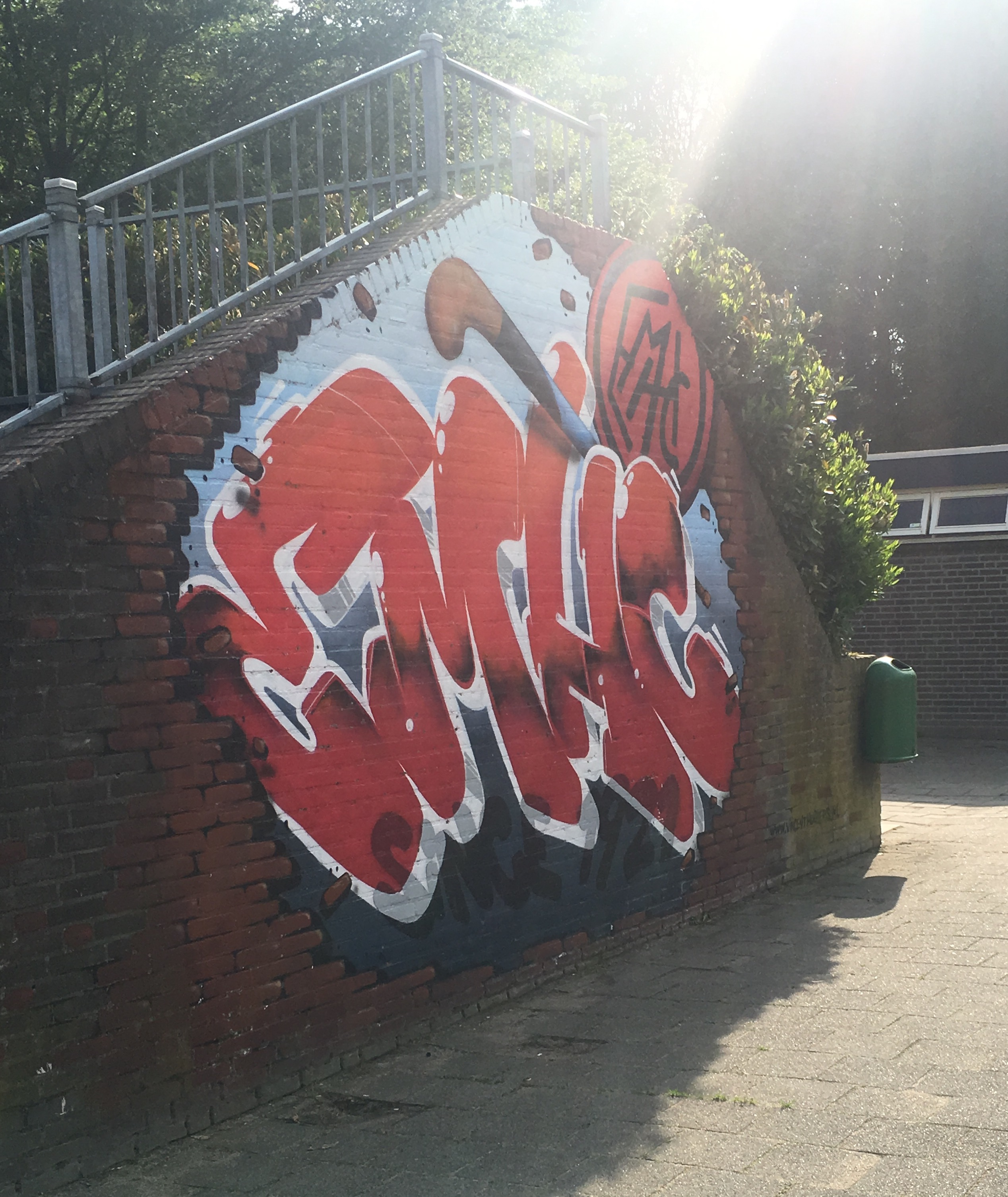 EMHC graffiti